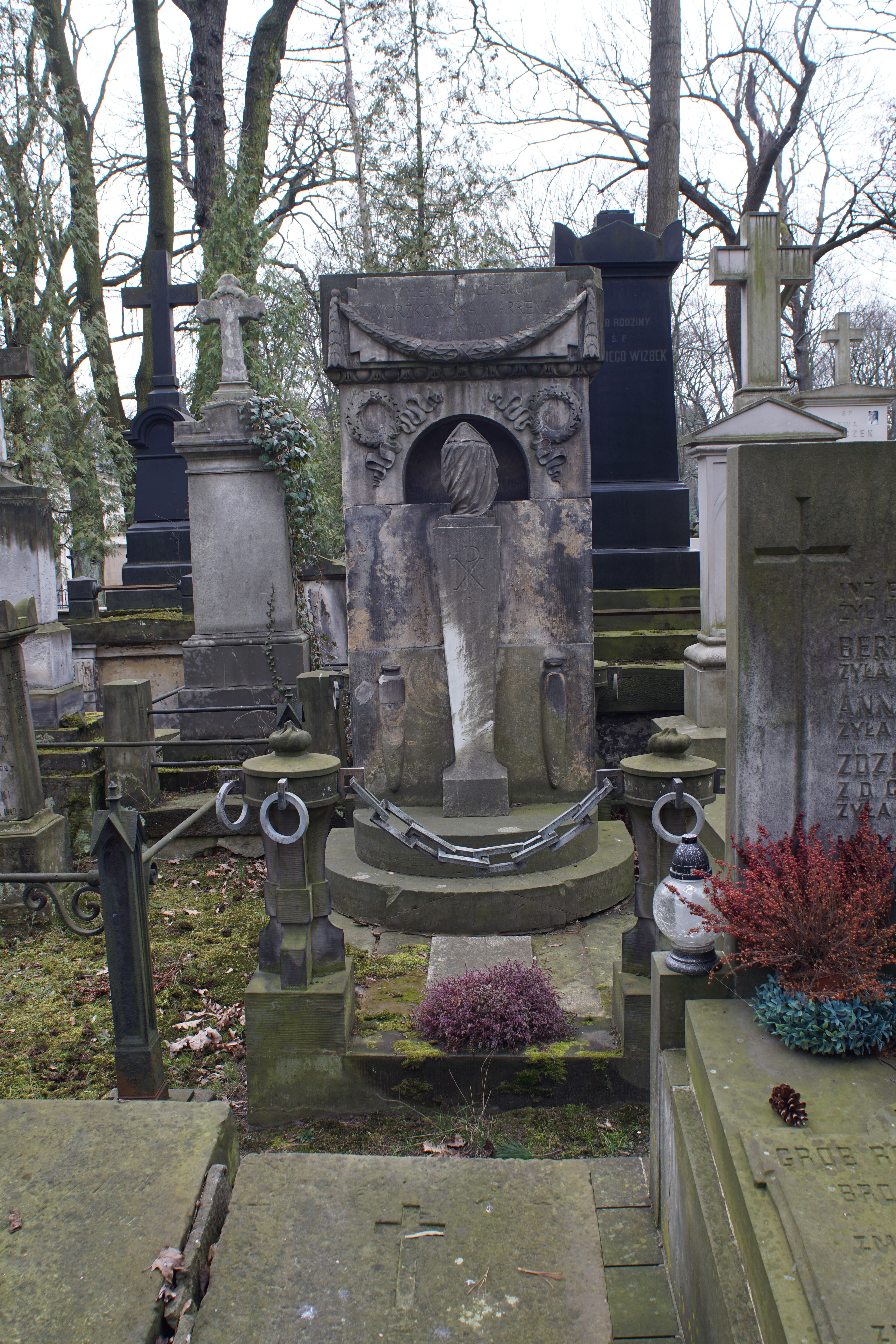 The grave of Waleria Marrené at the Powązki Cemetery (section 10, row 2, grave 23)